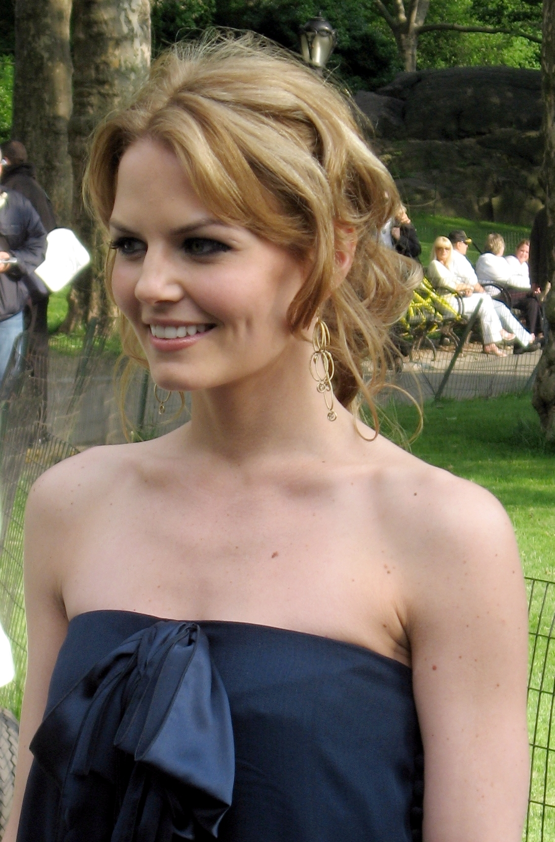 Jennifer Morrison at Fox Upfronts 2007.